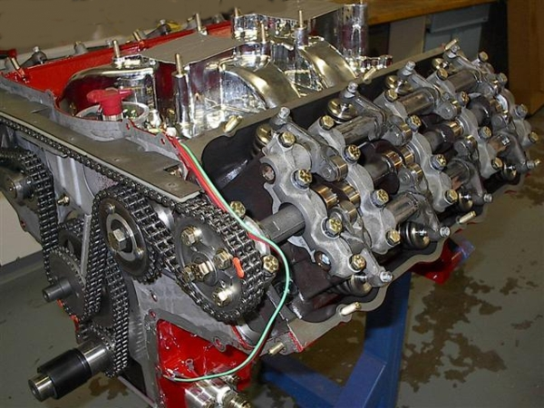 Ford FE SOHC with exposed cams, rockers and timing chain